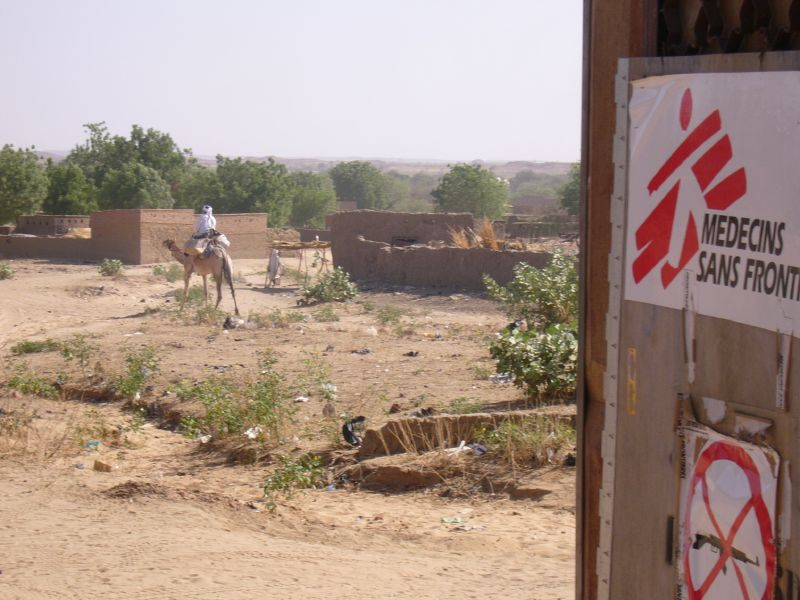 MSF front door at a Darfur refugee camp in Chad